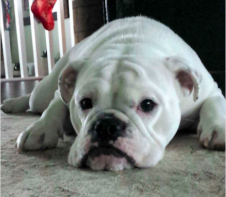 This image shows a female English Bulldog with a noticeably flat face and large jowls.